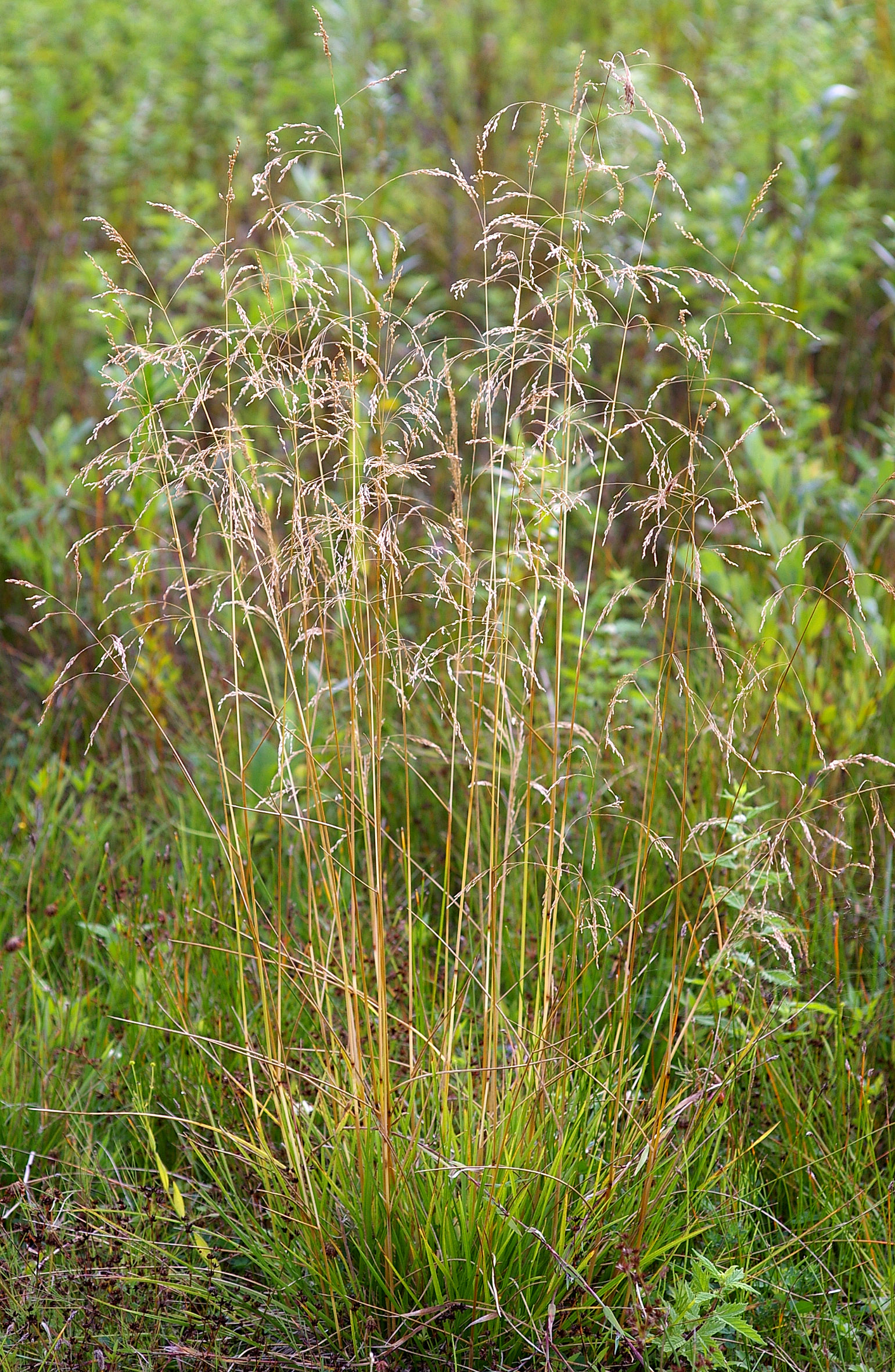 Habitus of the grass Deschampsia cespitosa.